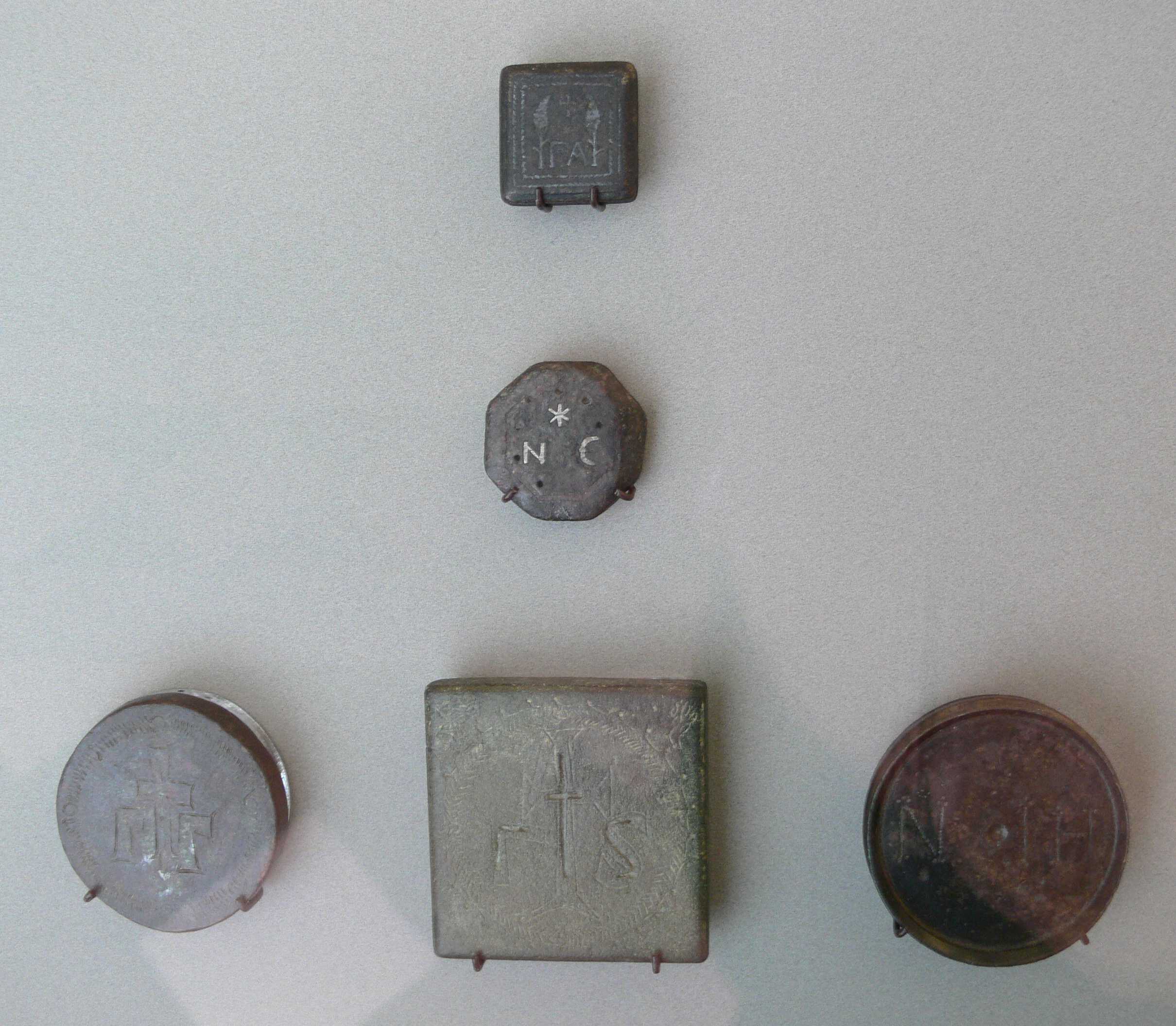 Five shop weights, bronze, early or middle Byzantine Empire. Museum für Byzantinische Kunst (Inv. 12/72, acquired in 1972), Bode-Museum, Berlin.